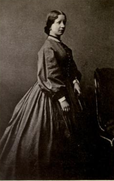 Catherine (Fraser) Suther, Aberdeen